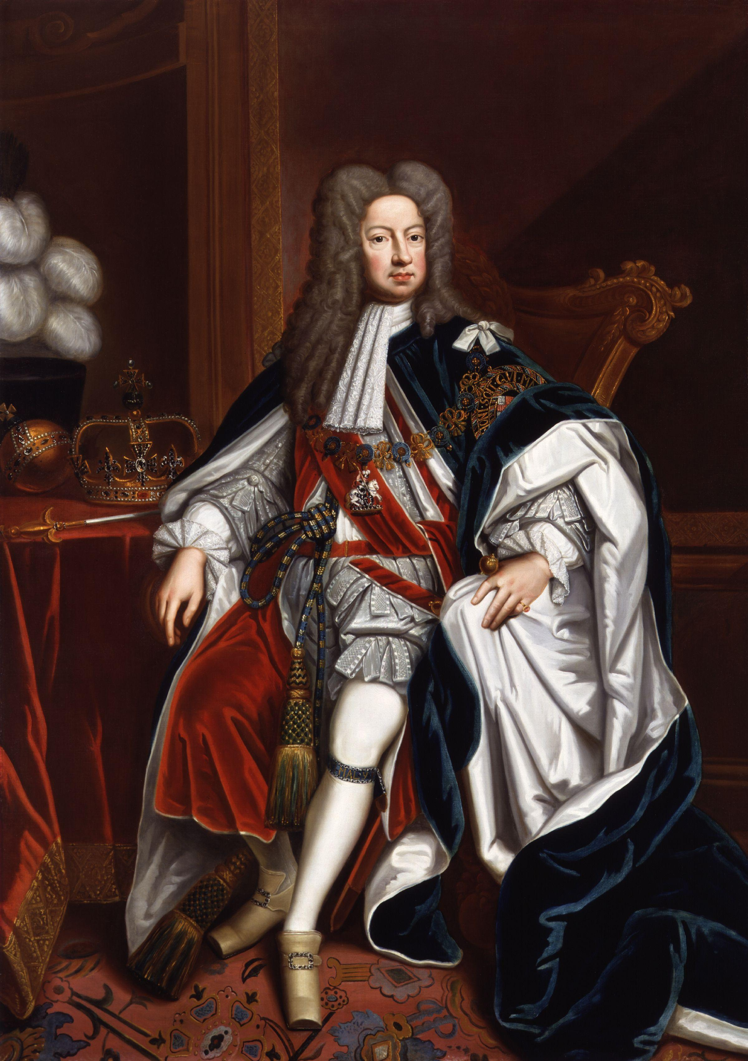 All images in this batch have been confirmed as author died before 1939 according to the official death date listed by the NPG.